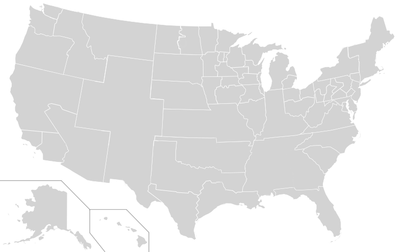 A map of the synods of the Evangelical Lutheran Church in America. Edited in Photoshop.